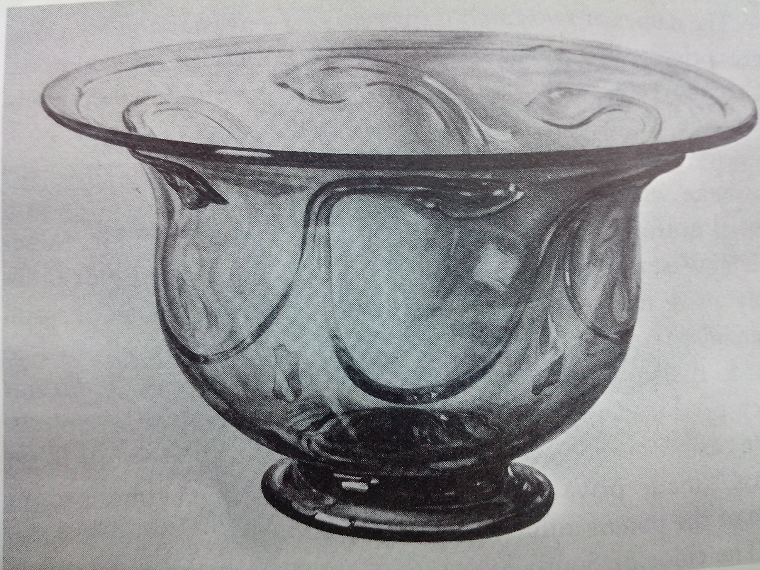 Glass Bowl With Lylipads Courtesy National Gallery of Art